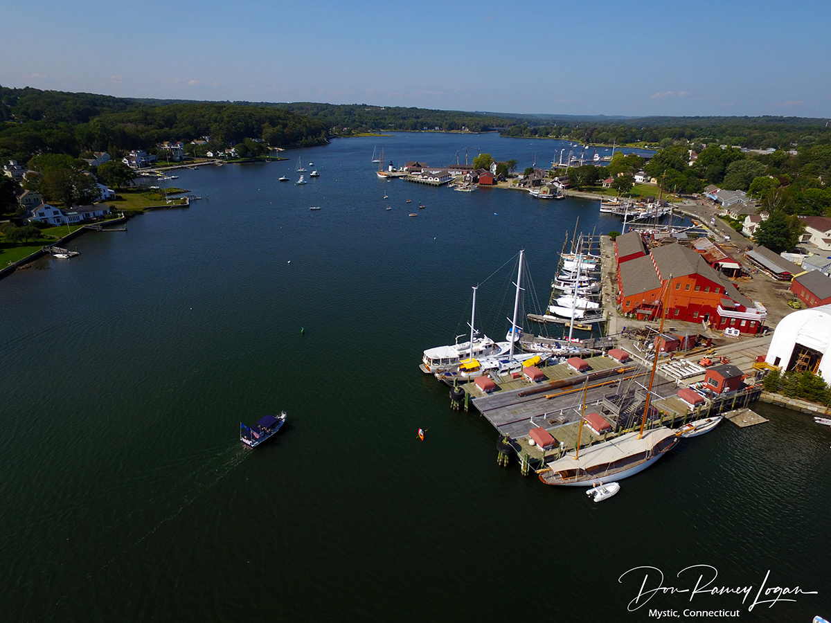 Mystic Shipyard aerial by Don Ramey Logan